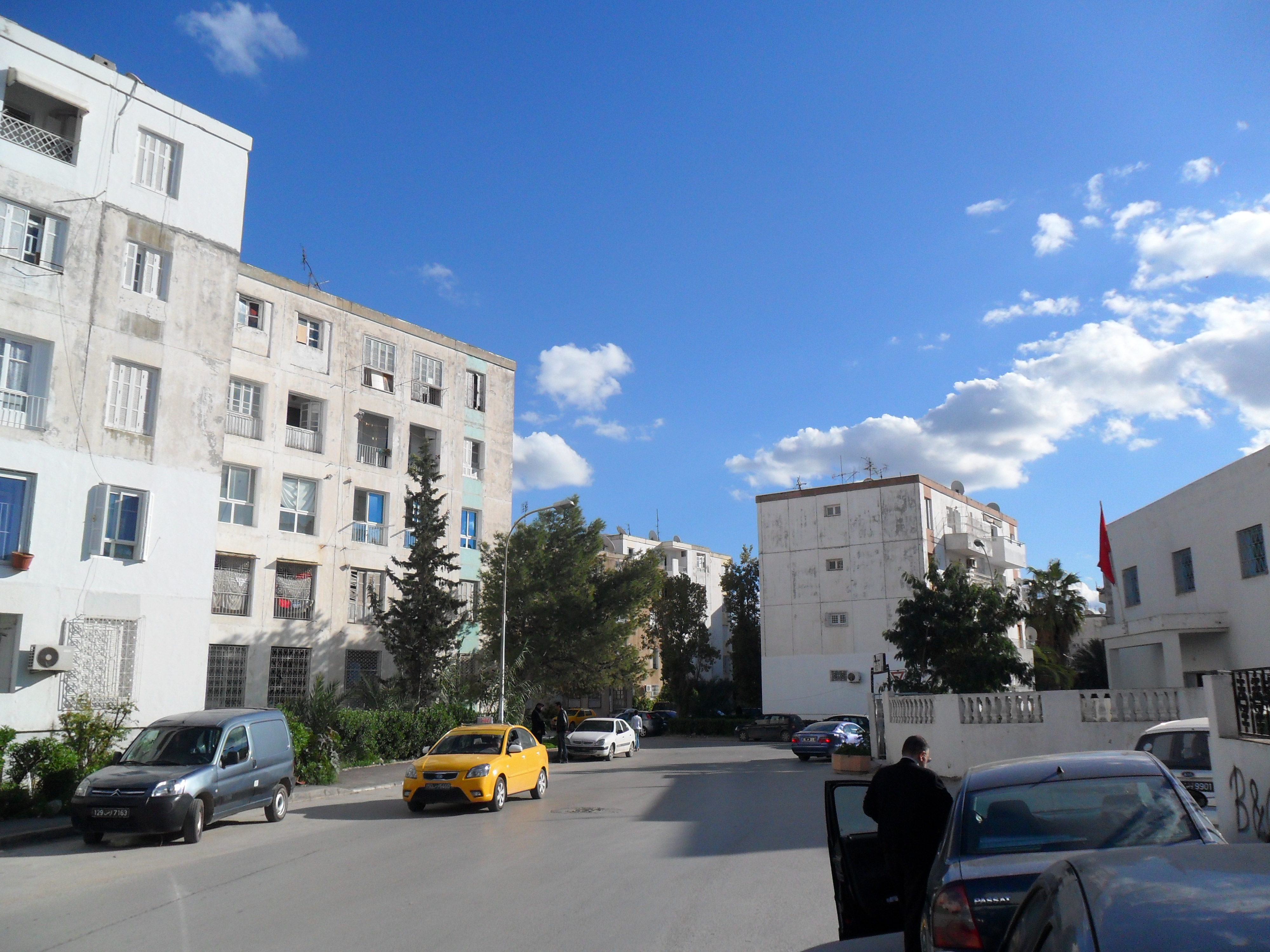 Street view of Cite olympique in Tunis